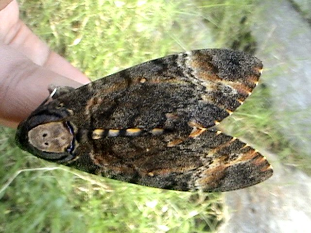 Eastern Death's head Hawkmoth (Acherontia styx) upperside